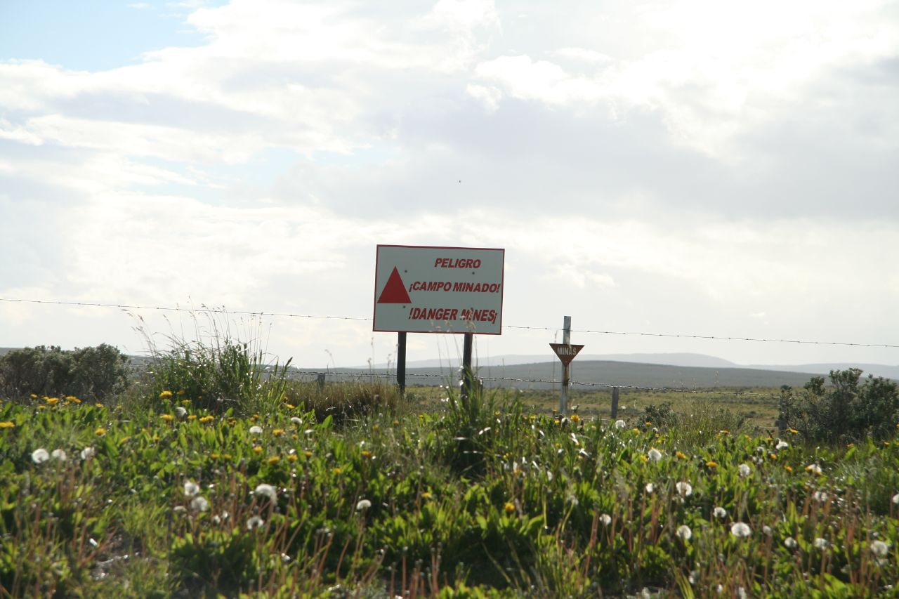 A mine field planted by the Chileans in case the Argentinians invaded. Near Punta Arenas.